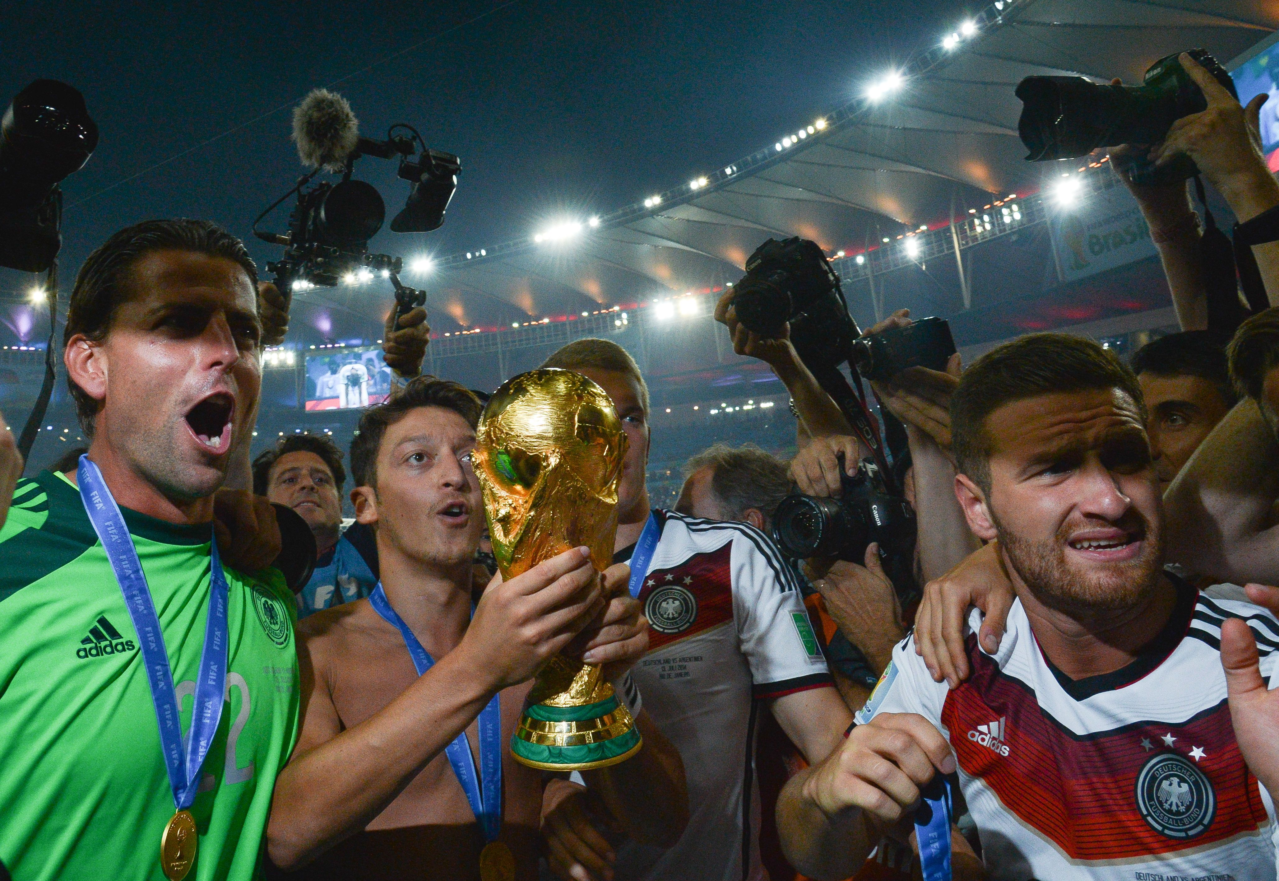 Award ceremony of the World Cup in Brazil